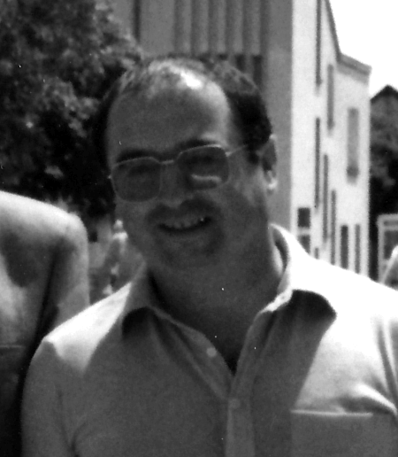 Gustave Thibon et Bernard Antony